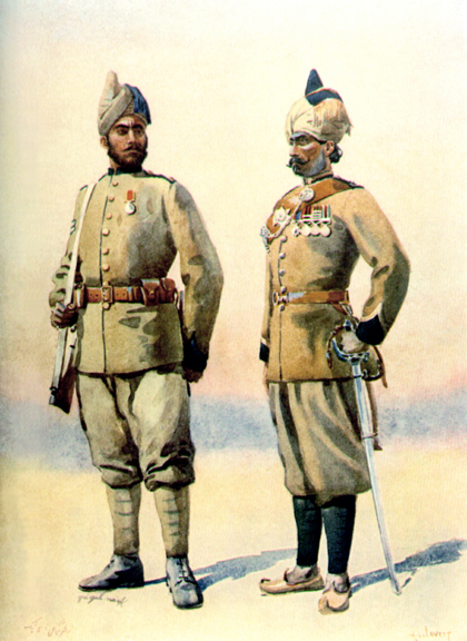 "Frontier Force". Left to Right: Naik 57th Wilde's Rifles and Subedar 53rd Sikhs. Watercolour by Major AC Lovett, 1910. Published in "The Armies of India", 1911.